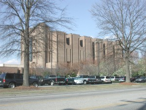 McLeod Regional Medical Center, Florence, SC Image taken by me, released under GFDL Pollinator 05:45, 21 Mar 2004 (UTC)